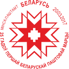 25th anniversary of the first Belarusian postal stamp.